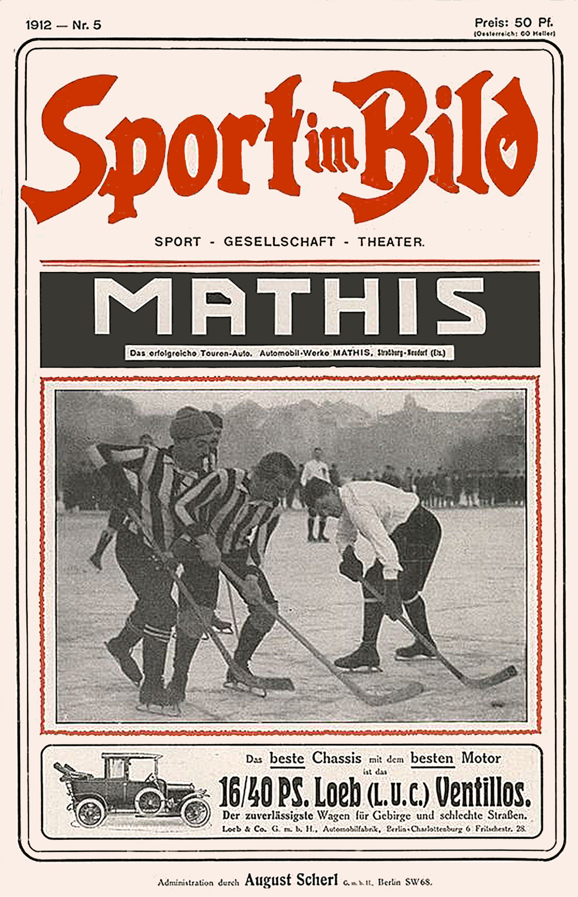 Cover of the magazine "Sport im Bild"